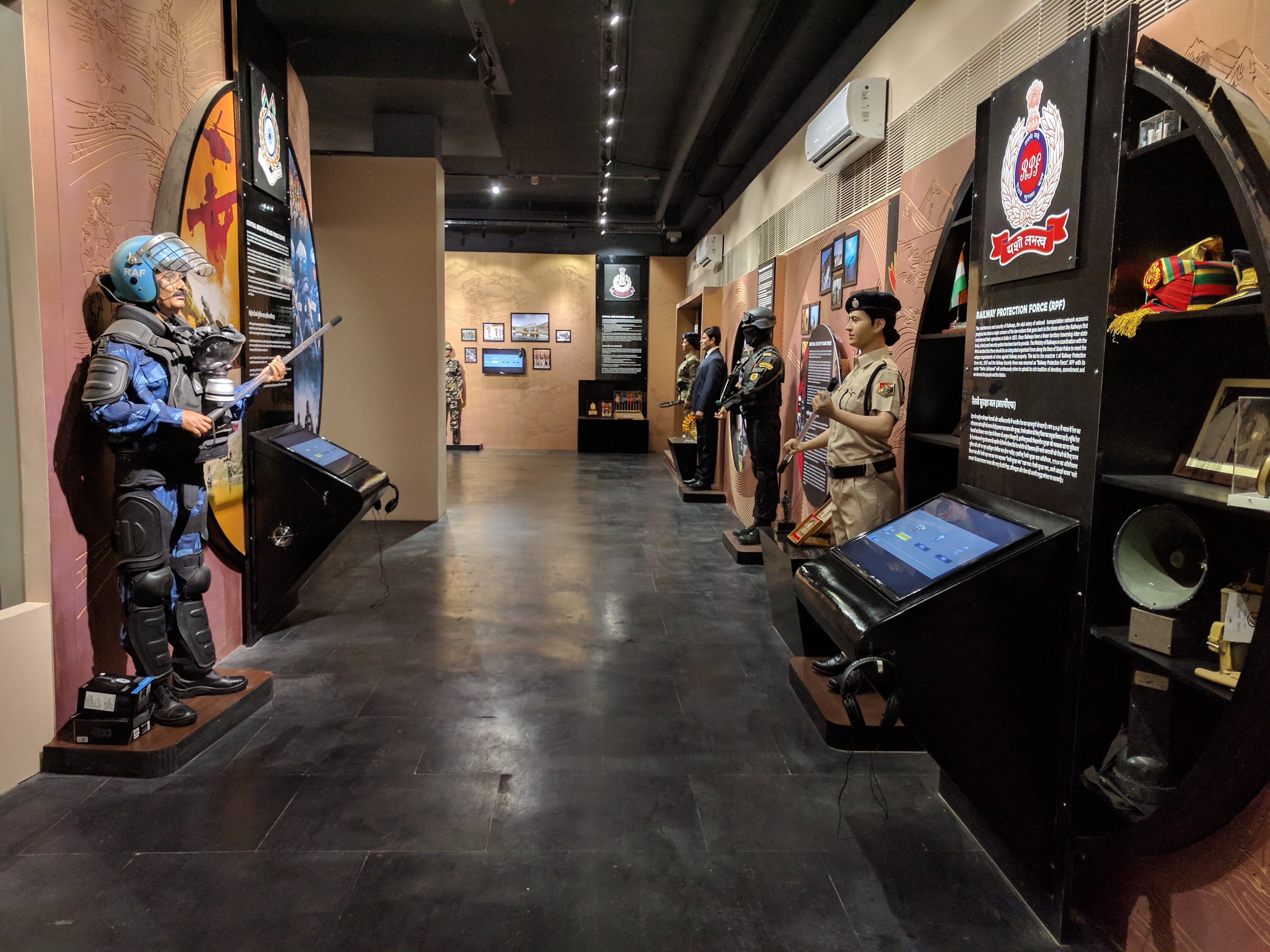 An exhibit of various different departments of the police security forces at the National Police Memorial and Museum in New Delhi, India. Inaugurated on 21 October 2018.